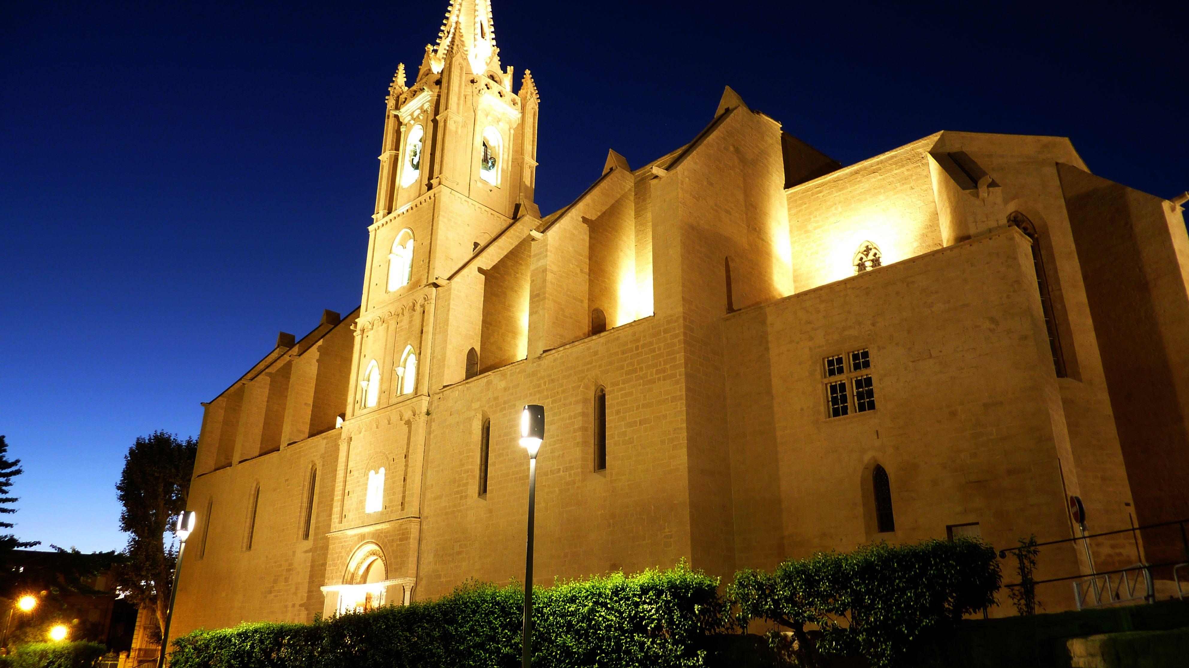 Saint Laurent Church by Night